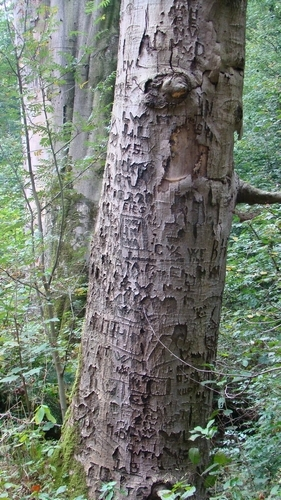 National Landscape Winterswijk